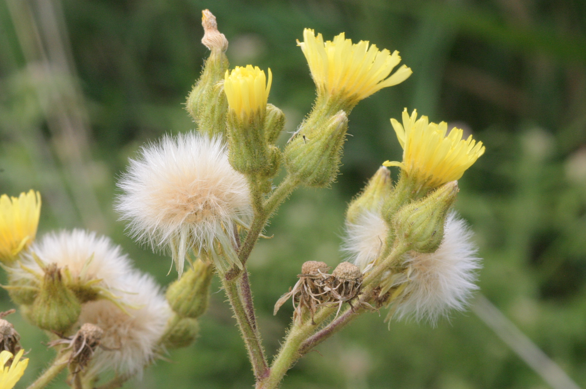 Sonchus palustris